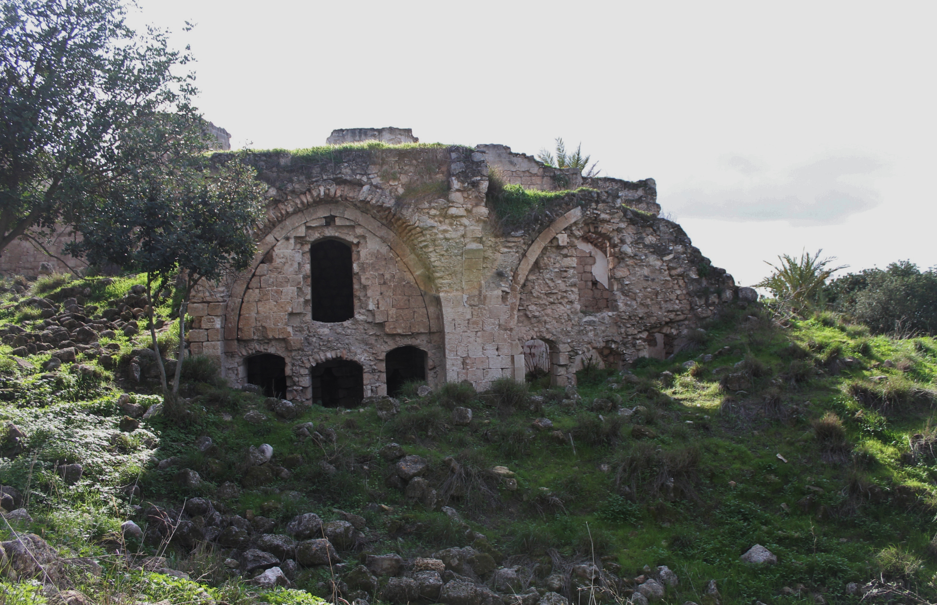 Church in Kakun ruins.